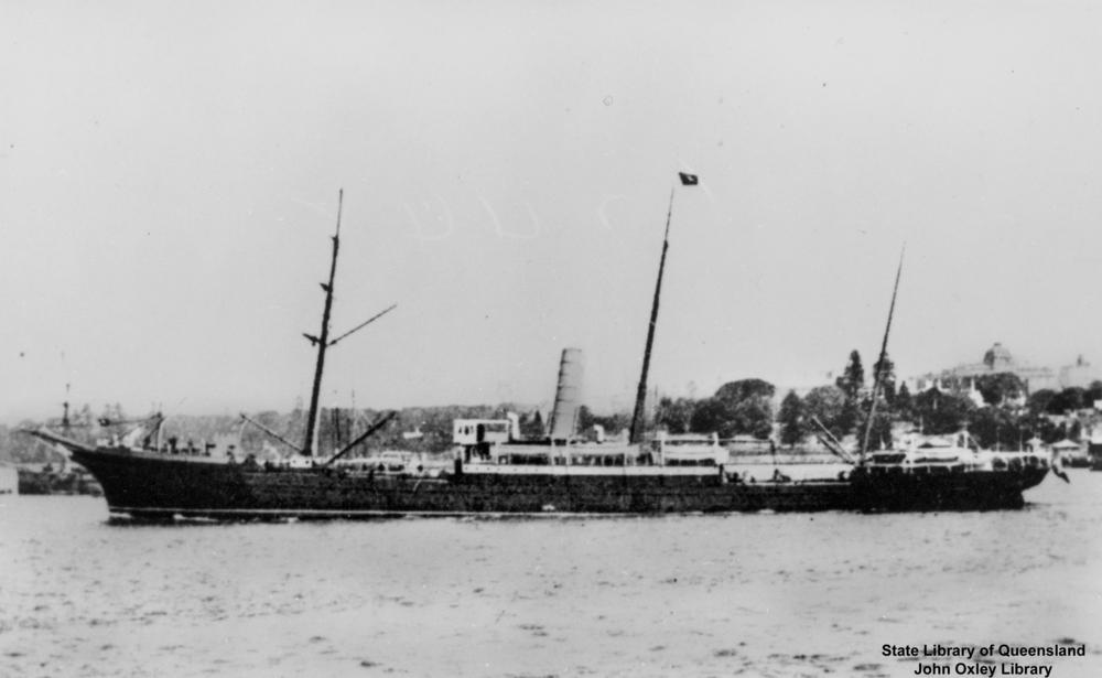 3,662 GRT sail- and steamship Australasian, built in 1884 by Rovert Napier & Co of Govan, Glasgow for George Thompson & Son (Aberdeen Line). In 1906 the Ottoman government bought her and renamed her Scham. In 1918 she was reduced to a hulk. She was scrapped at Savona in Italy in 1955.